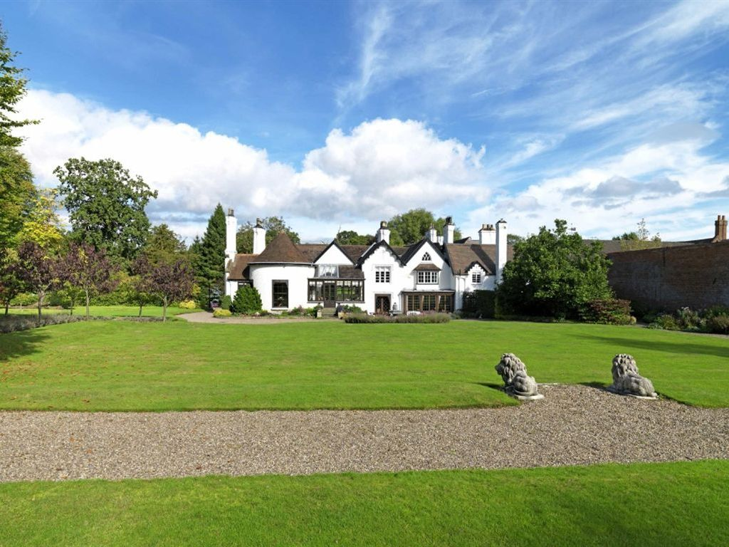 Rearview of the manor house located on Seisdon Rd, Trysull.